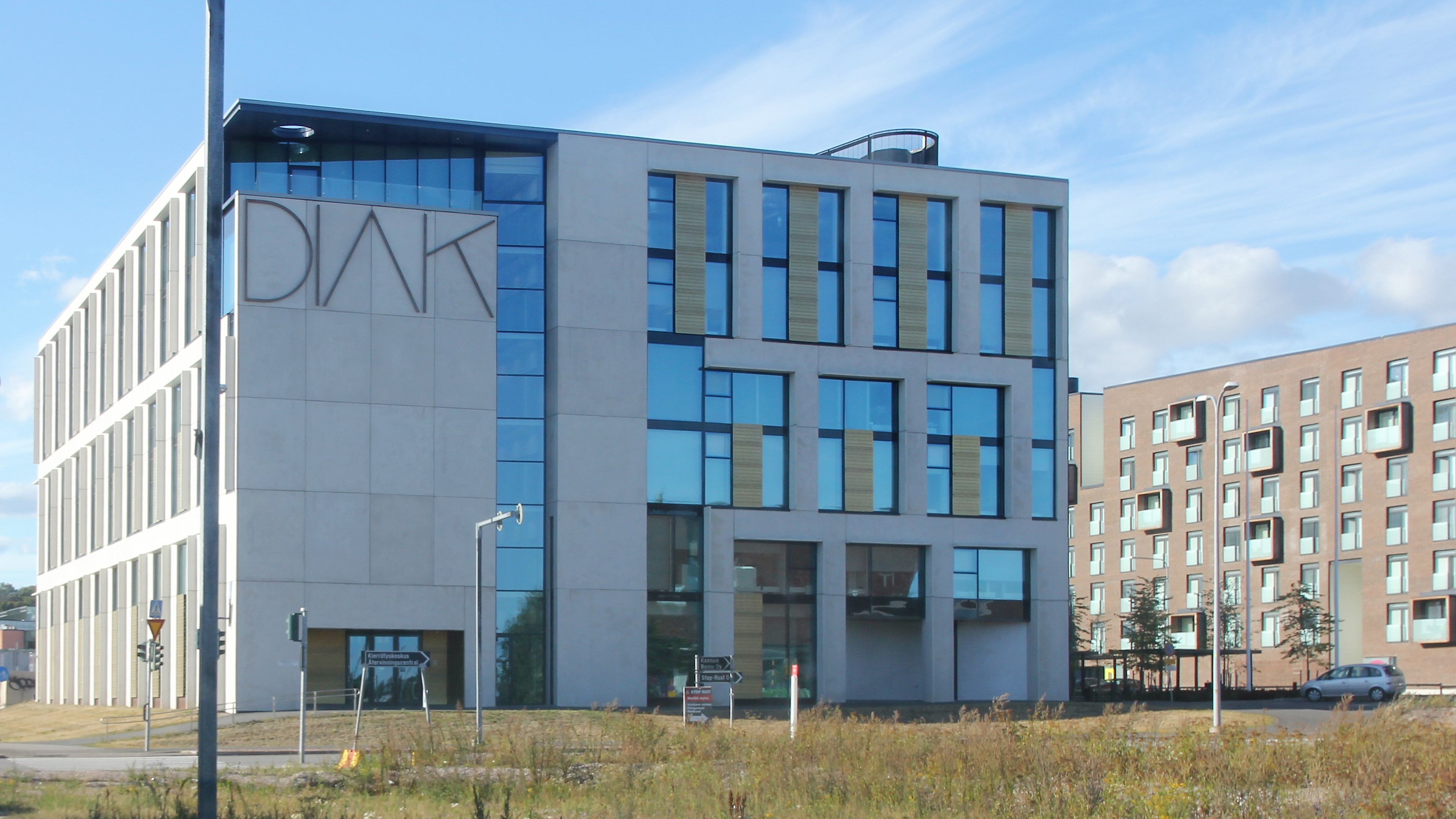 Building of Diaconia University of Applied Sciences (Diak) Helsinki Campus, in Kyläsaari, Helsinki. Address: Kyläsaarenkuja 2, 00580 Helsinki.